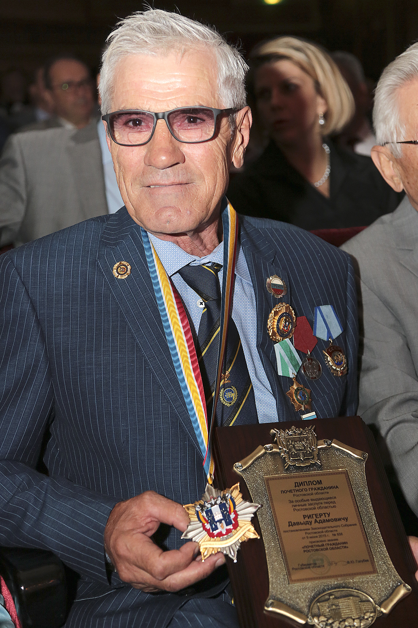 Rostov-on-Don, 11 September 2015. David Rigert, an Olympic gold medalist in weightlifting (1976), during the ceremony of presenting the badges "Honorary Citizen of Rostov Oblast" at the Rostov State Musical Theater.